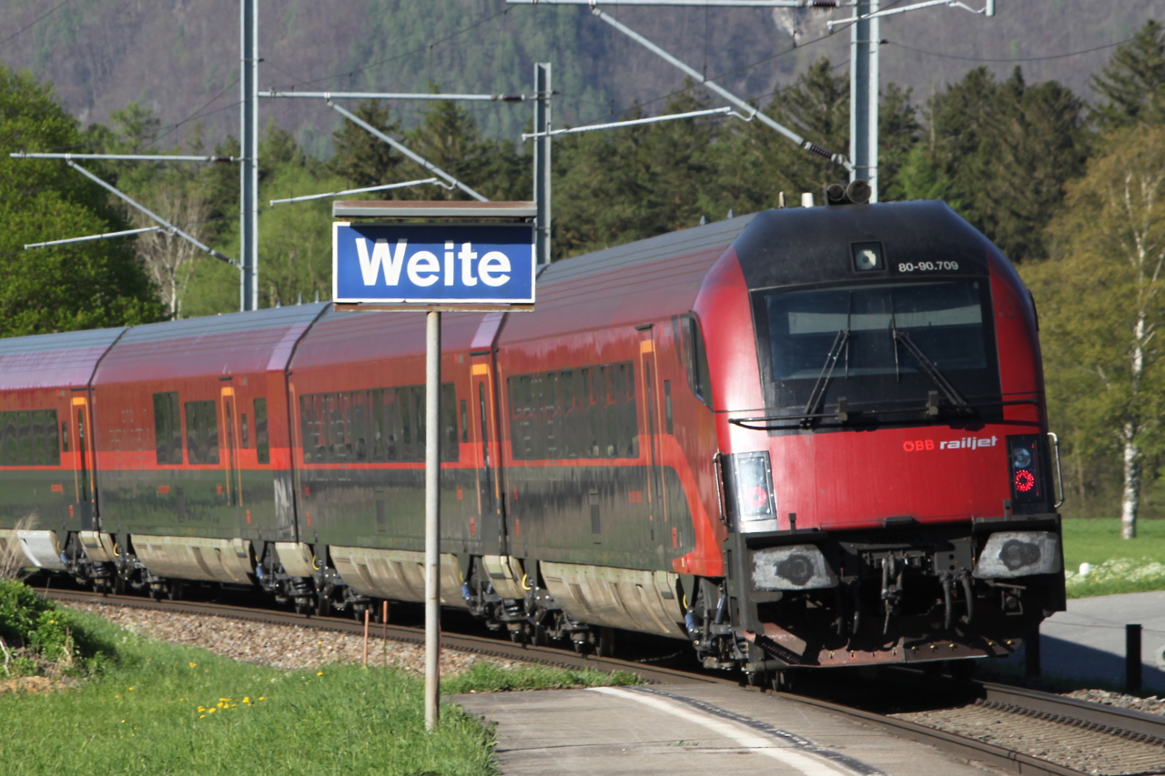 Weite train station sign.